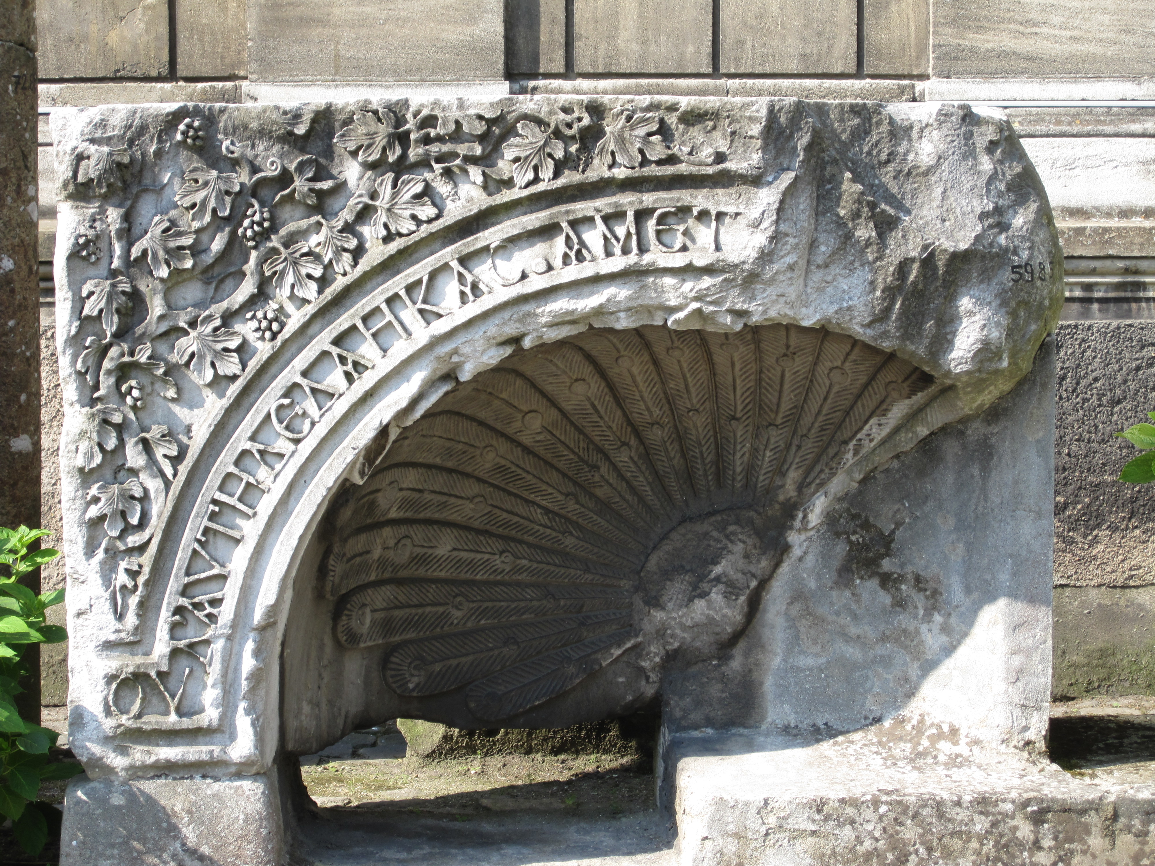 Fragment of a niche with a peacock and some line from a Greek epigram (Palatine Anthology I, 10, 31), from the St. Polyeuktos church in Constantinople, ca. 524-527. Istanbul Archaeological Museum. Reference : N. Firatli, La sculpture byzantine figurée au musée archéologique d'Istanbul, Paris, 1990, n°499, p. 213.